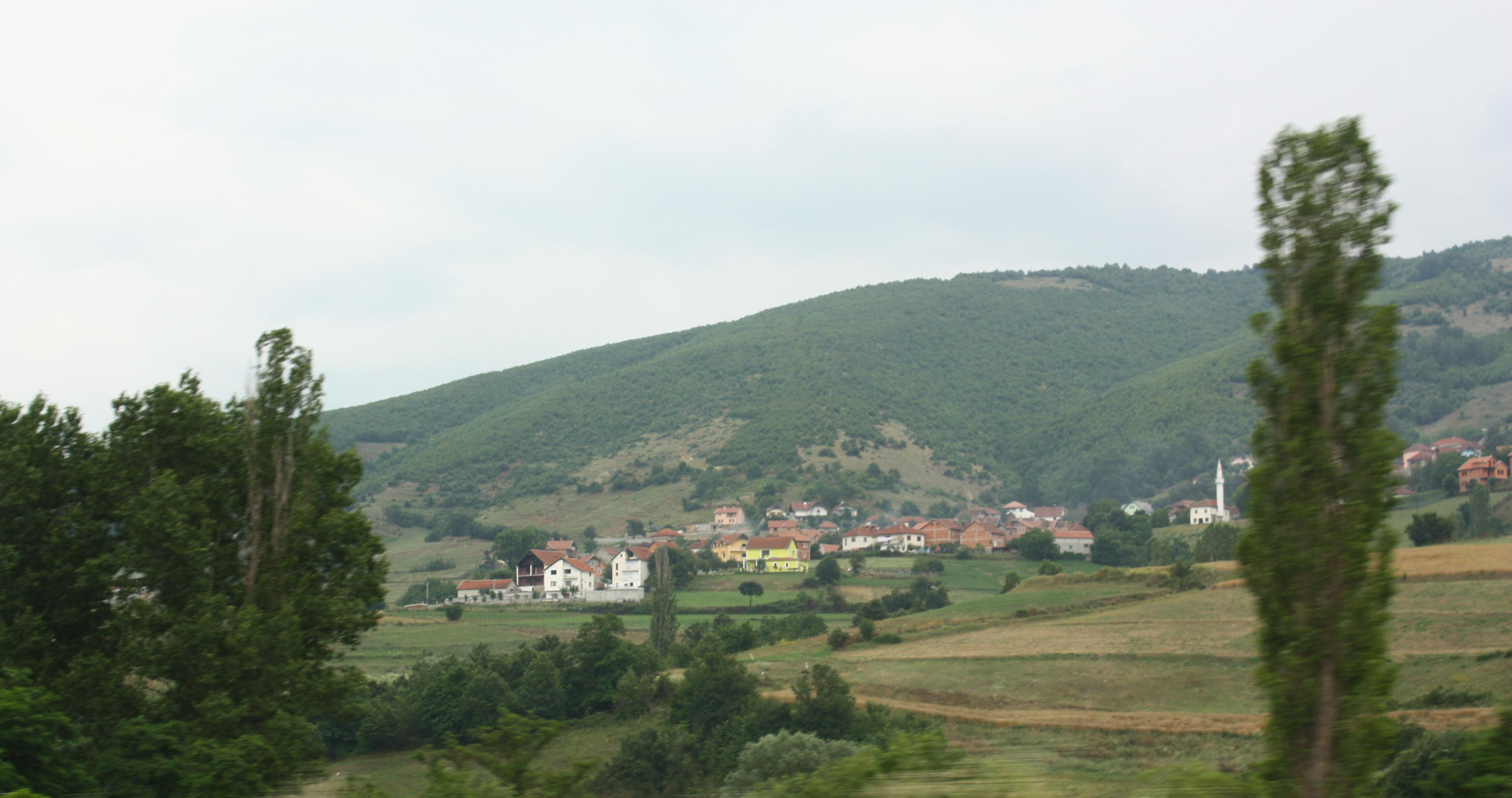 Rogle, Macedonia